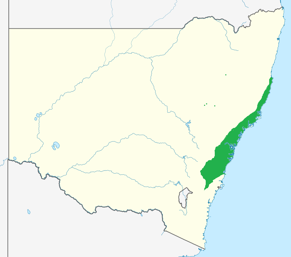 Persoonia lanceolata range, adapted from Weston, Peter H. (1995) "Persoonioideae " in McCarthy, Patrick (ed.) , ed. Flora of Australia: Volume 16: Eleagnaceae, Proteaceae 1, CSIRO Publishing / Australian Biological Resources Study, pp. 47–125 ISBN: 0-643-05693-9. . Original map is png version of File:Australia New South Wales location map blank.svg